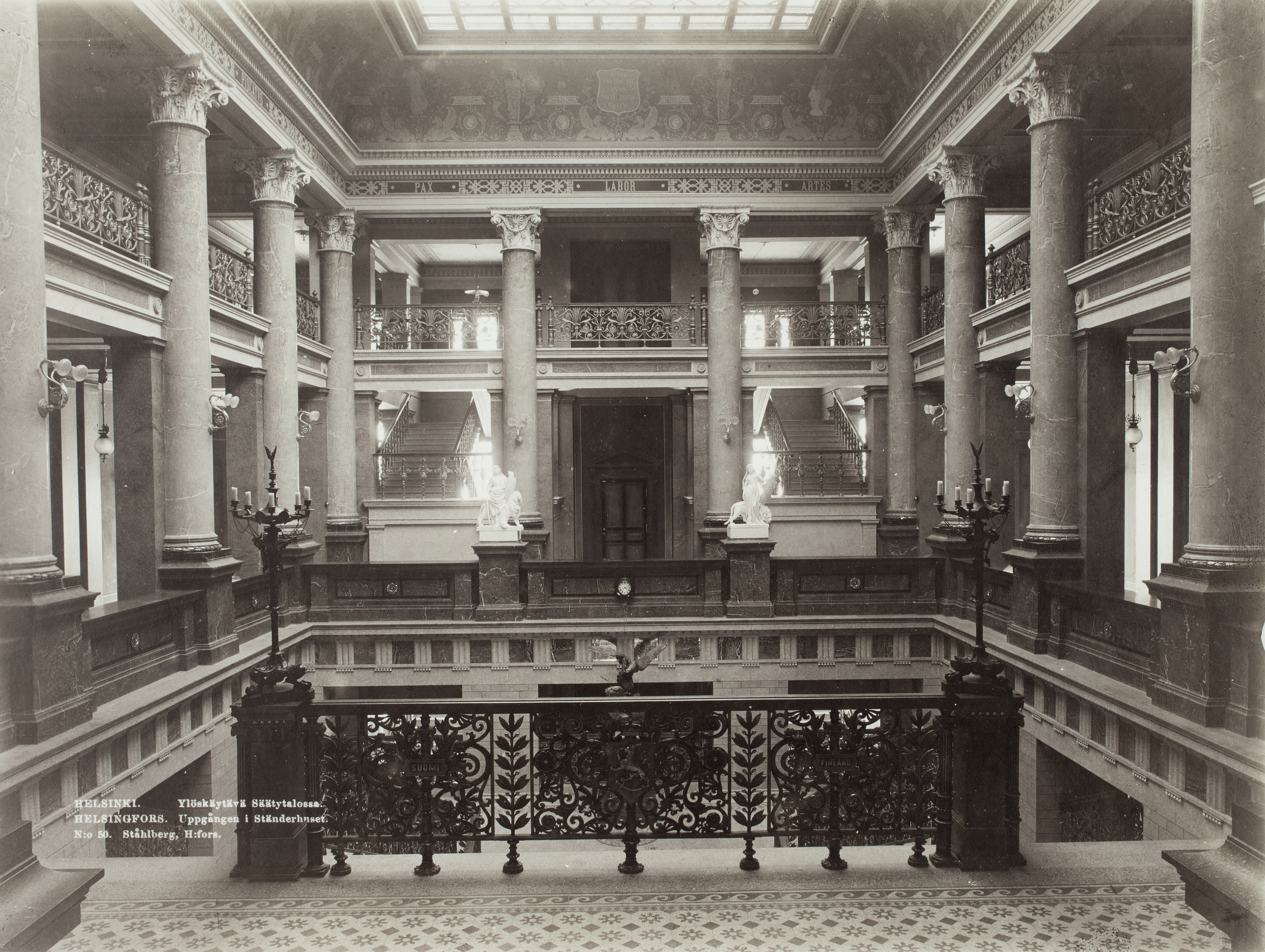 Ständerhuset, Helsingfors (23,3x17,6 cm) Foto: Atelier K. E. Ståhlberg Helsingfors, Finland Svenska litteratursällskapet i Finland